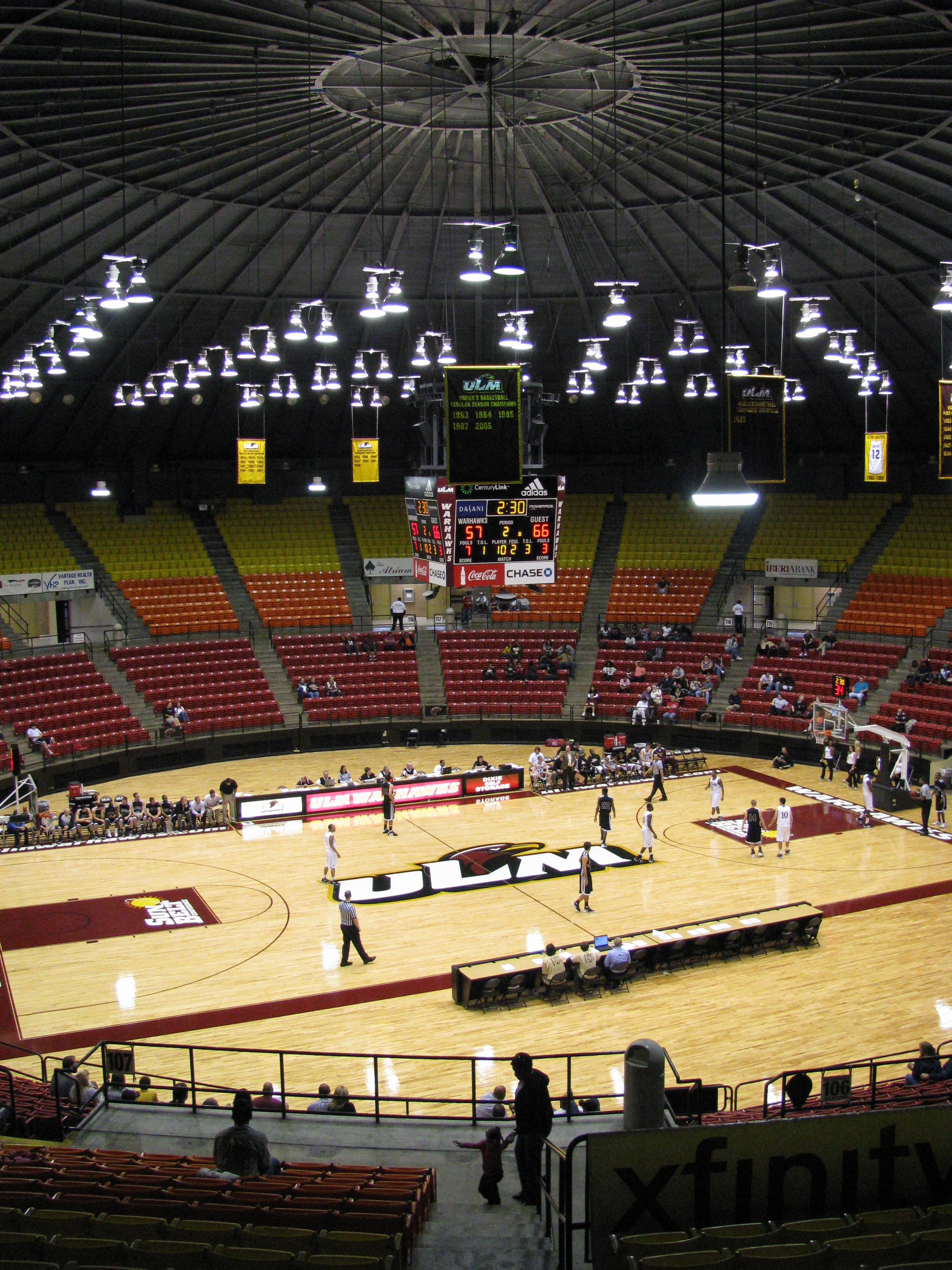 Interior view of the Fant–Ewing Coliseum on the campus of the University of Louisiana at Monroe in Monroe, Louisiana.